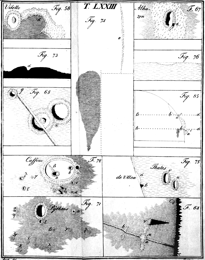 Samples from moon maps on some of the plates of Johann Hieronymus Schröter's Selenotopographische Fragmente (1791)